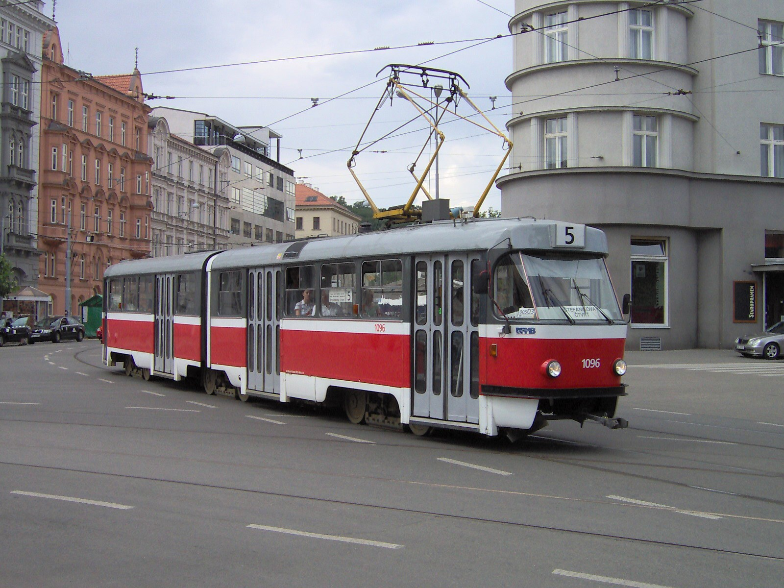 Tatra K2 tram in Brno, Czech Republic